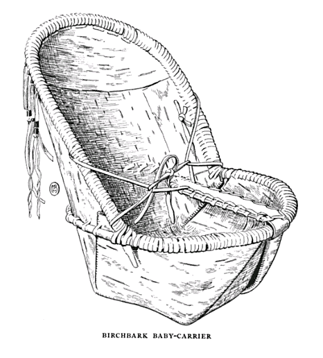 19th century knowledge camping and hiking birchbark baby carrier